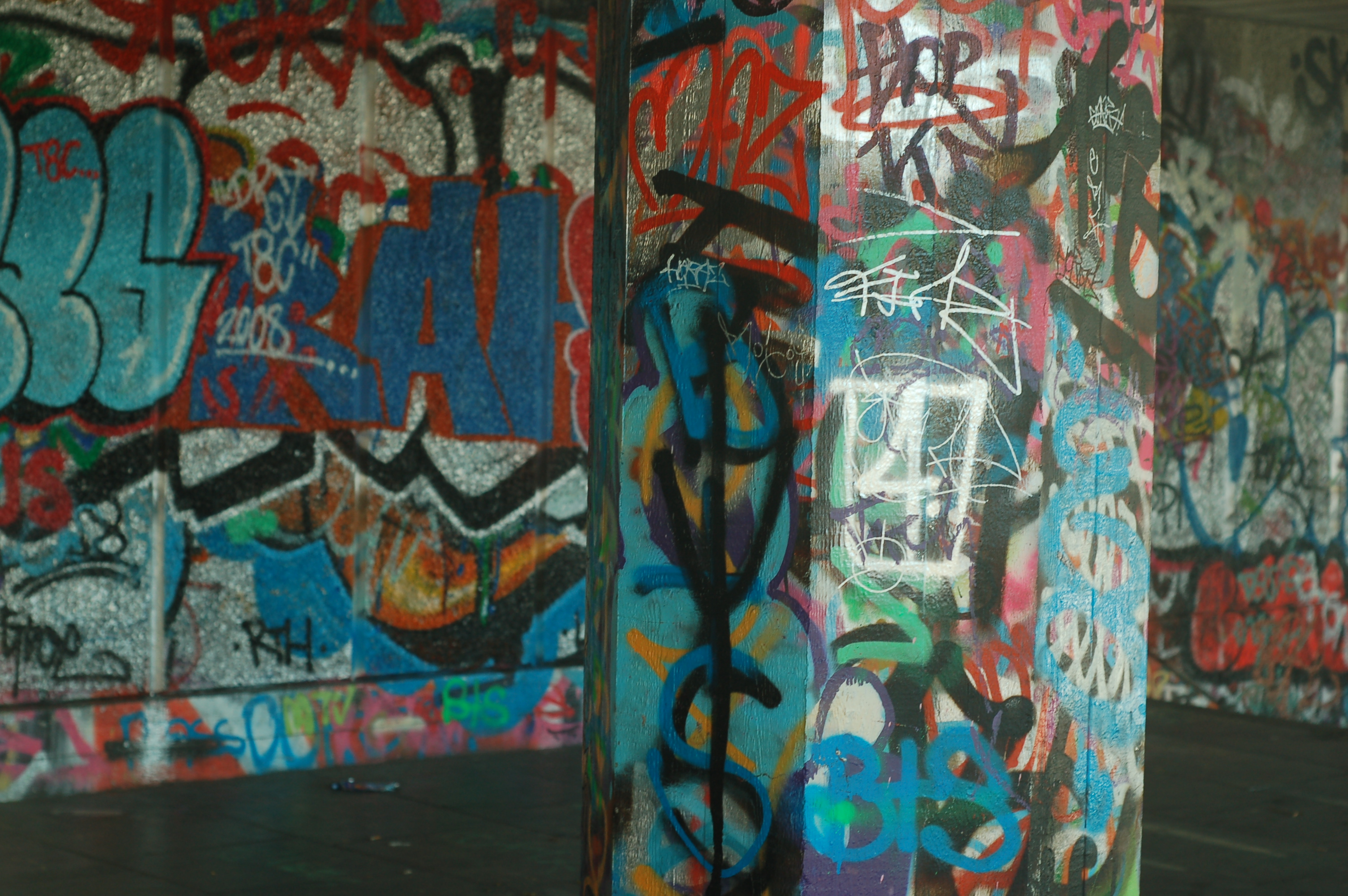 Day 10: Gravity. According some people that's how your supposed to pronounce "graffiti" (I've always believed it's grah-vee-tee). Which has always annoyed the hell out of me.